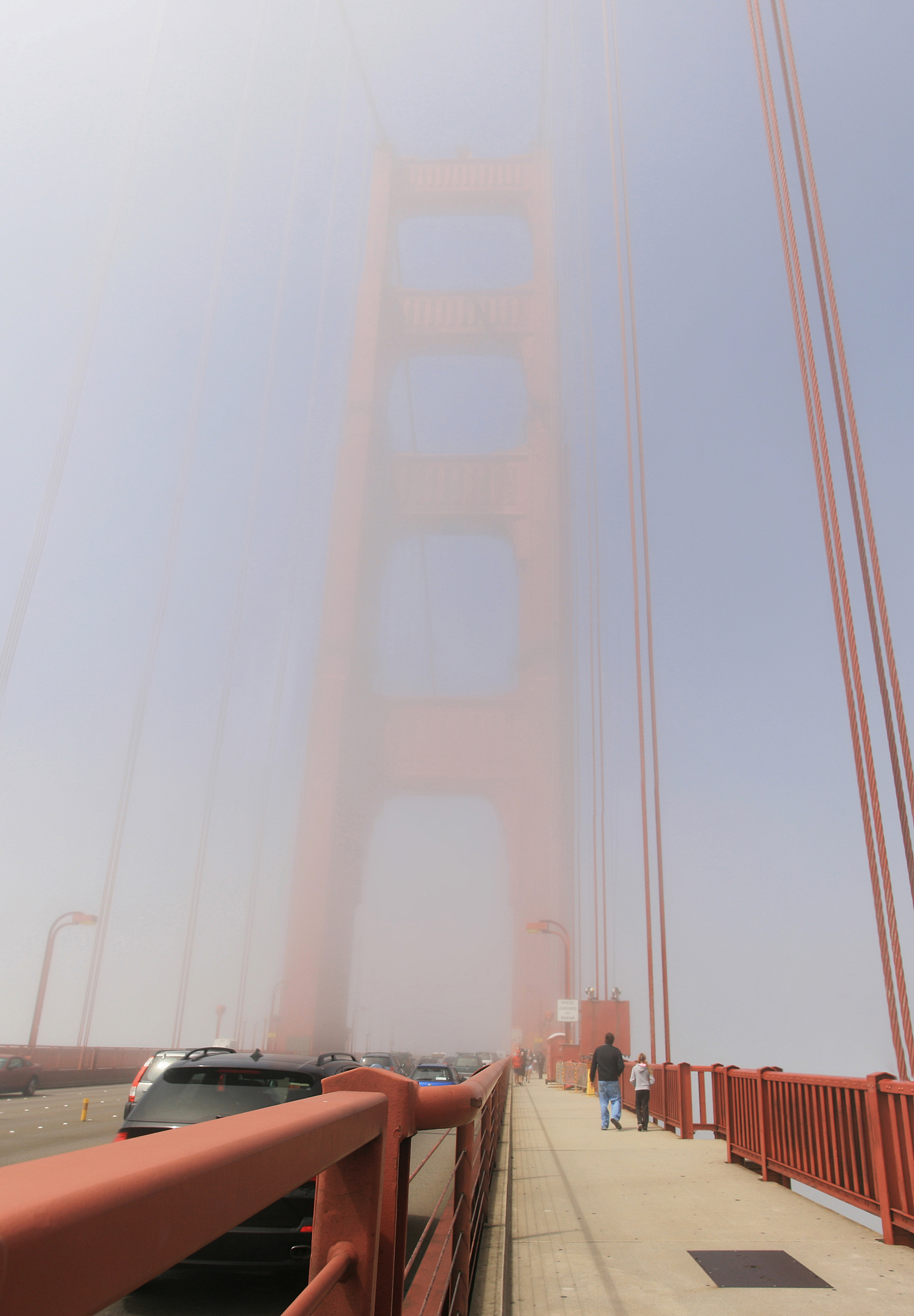 Golden Gate Bridge and San Francisco's fog. The image illustrates reducing visibility due to the fog.